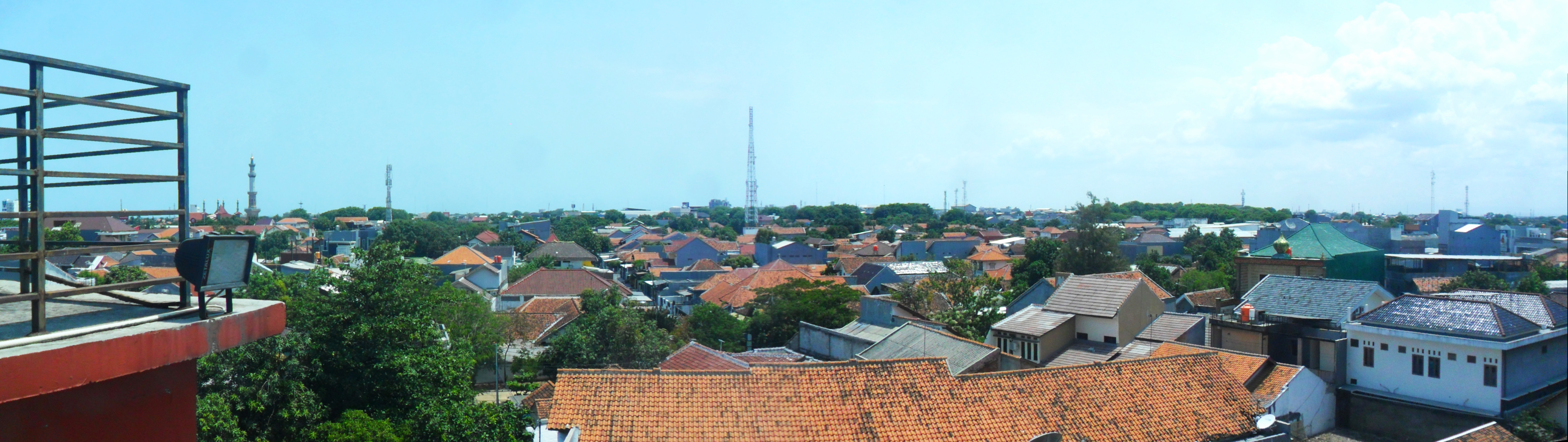 Cirebon City panorama